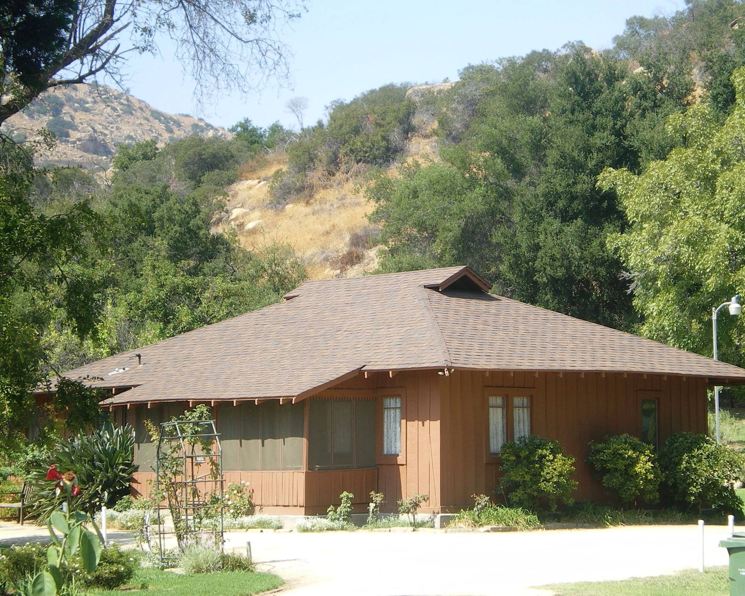 Minnie Hill Palmer House — a historic house museum in Chatsworth of the western the San Fernando Valley, in Los Angeles, California